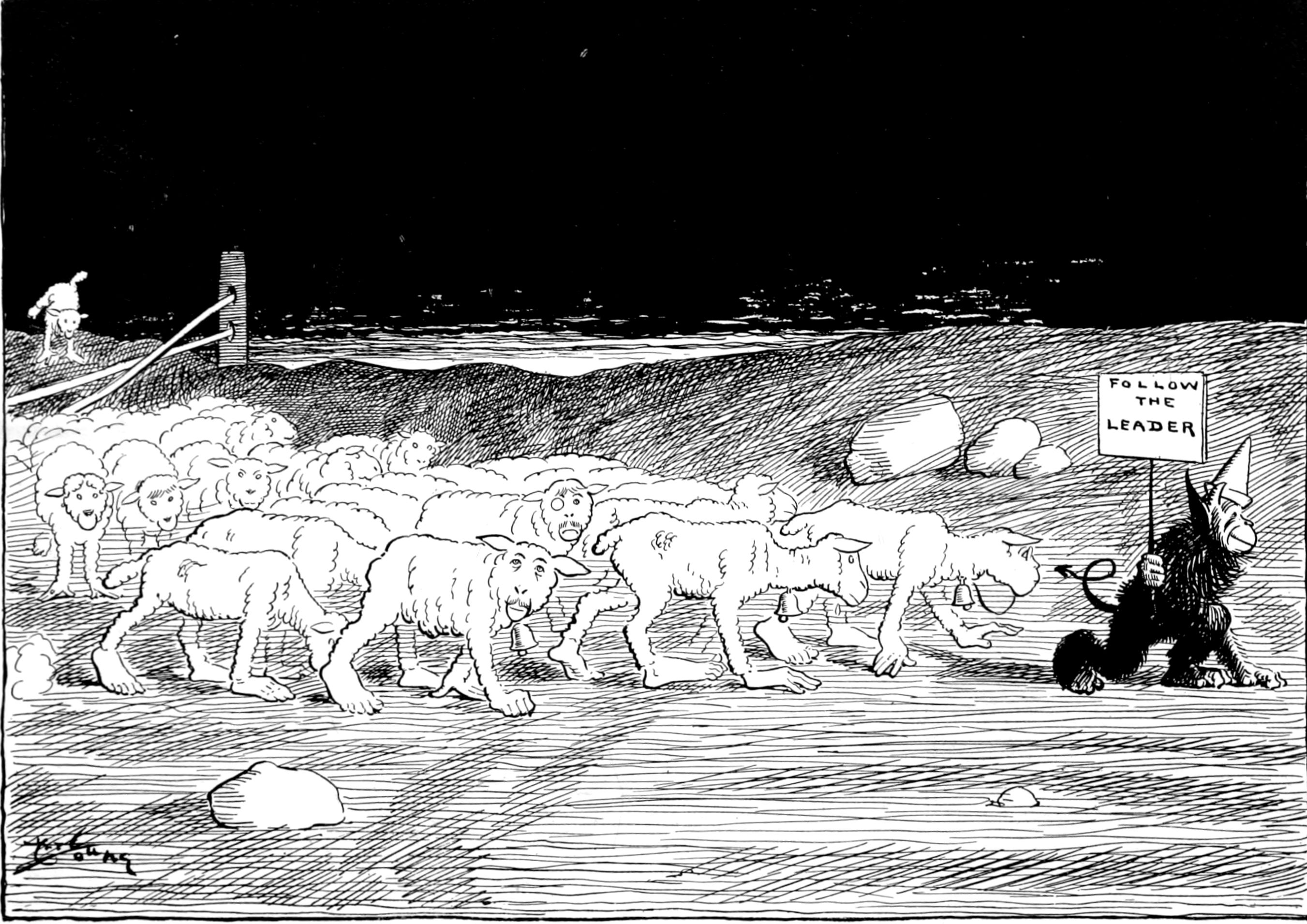 Through hell with Hiprah Hunt pg 41